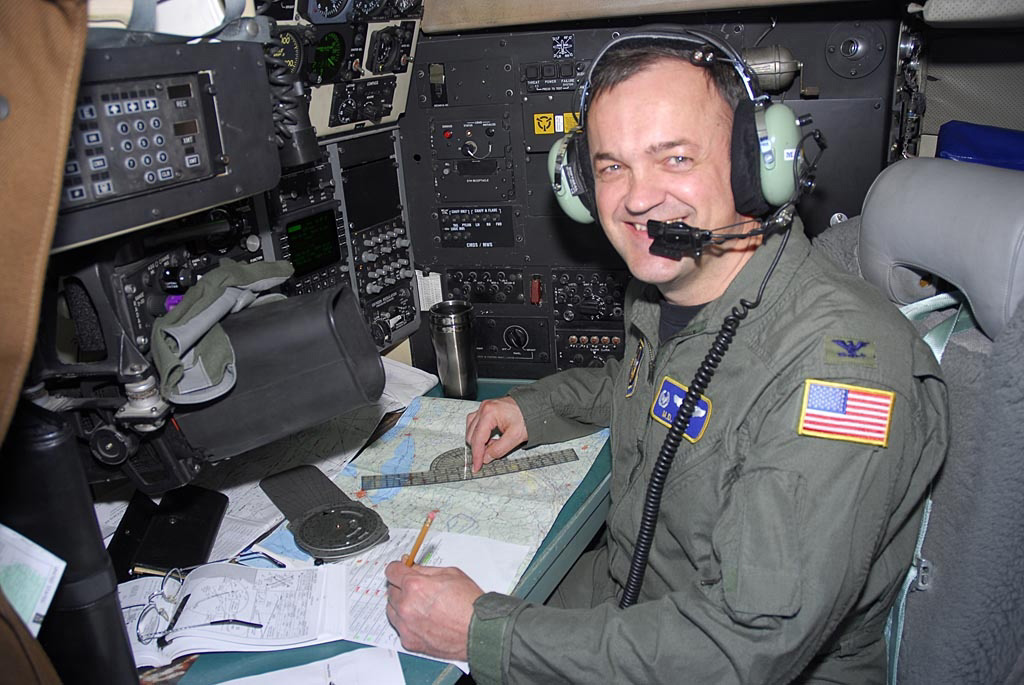 Col. Merle D. Hart, 440th Airlift Wing commander, is a master navigator with more than 5,500 flying hours to his credit. He has flown in many major worldwide contingencies during the past two decades and has served in a variety of enlisted and officer positions throughout his active duty and Air Force Reserve career. (U.S. Air Force photo)